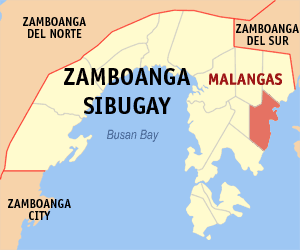 Map of the Zamboanga Sibugay showing the location of Malangas